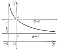 Graph of the function .